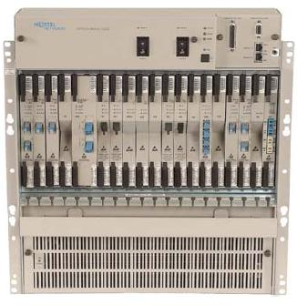 This is a Nortel Optical Metro 5200.